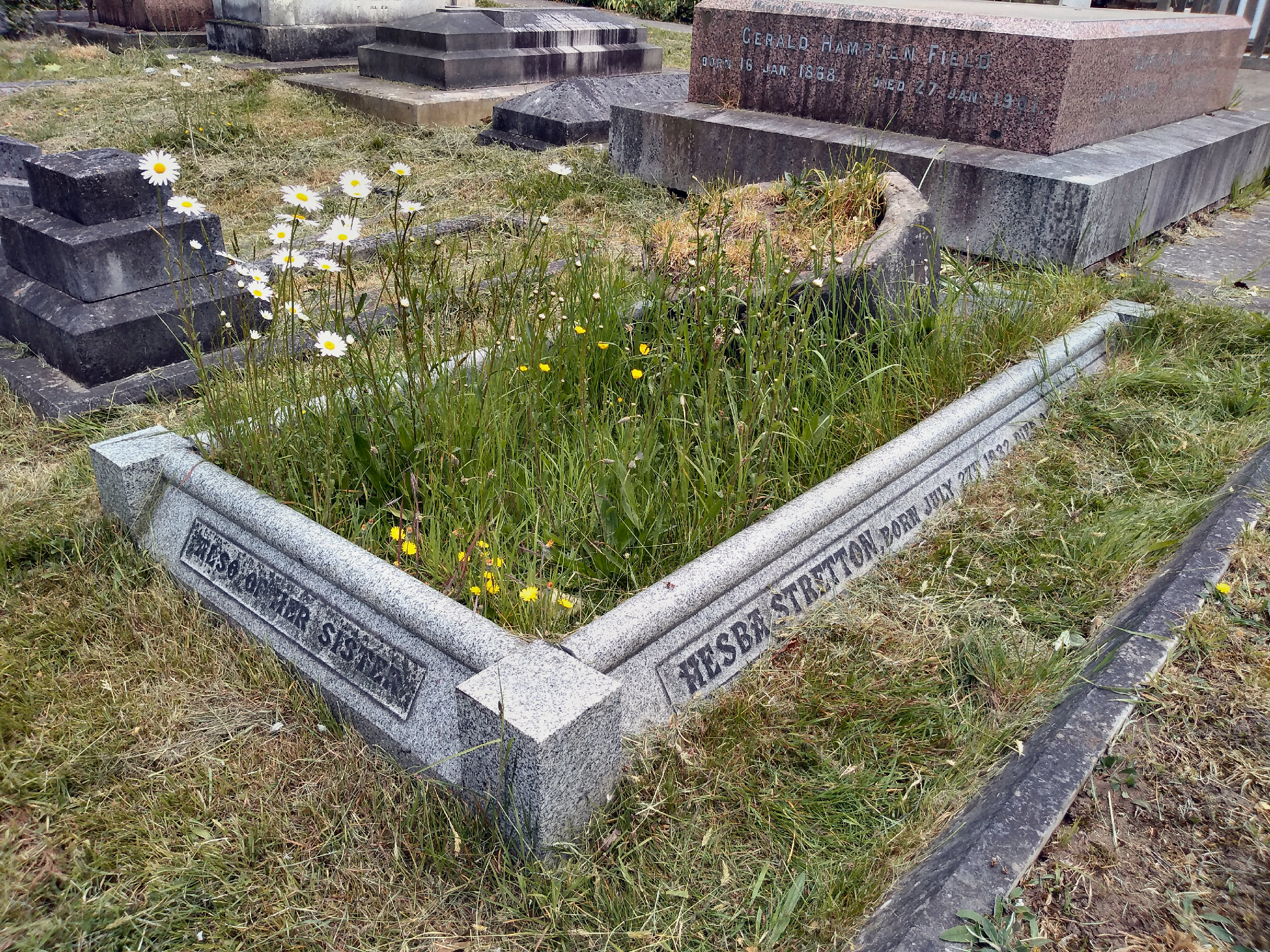 St Andrew's Church, Ham, Sarah Smith (Hesba Stretton) grave, and sister Elizabeth. The baptismal font originally came from a mason's yard in Wellington, Shropshire, where the sisters had been baptised, and had been in their garden at Ivycroft on Ham Common (no 23, now called The Little House).